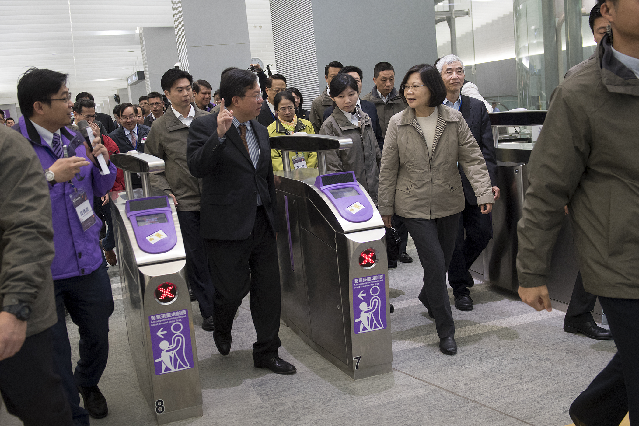 授權方式及範圍：中華民國總統府│政府網站資料開放宣告 Authorization Method & Scope: Office of the President, Republic of China (Taiwan) | Government Website Open Information Announcement